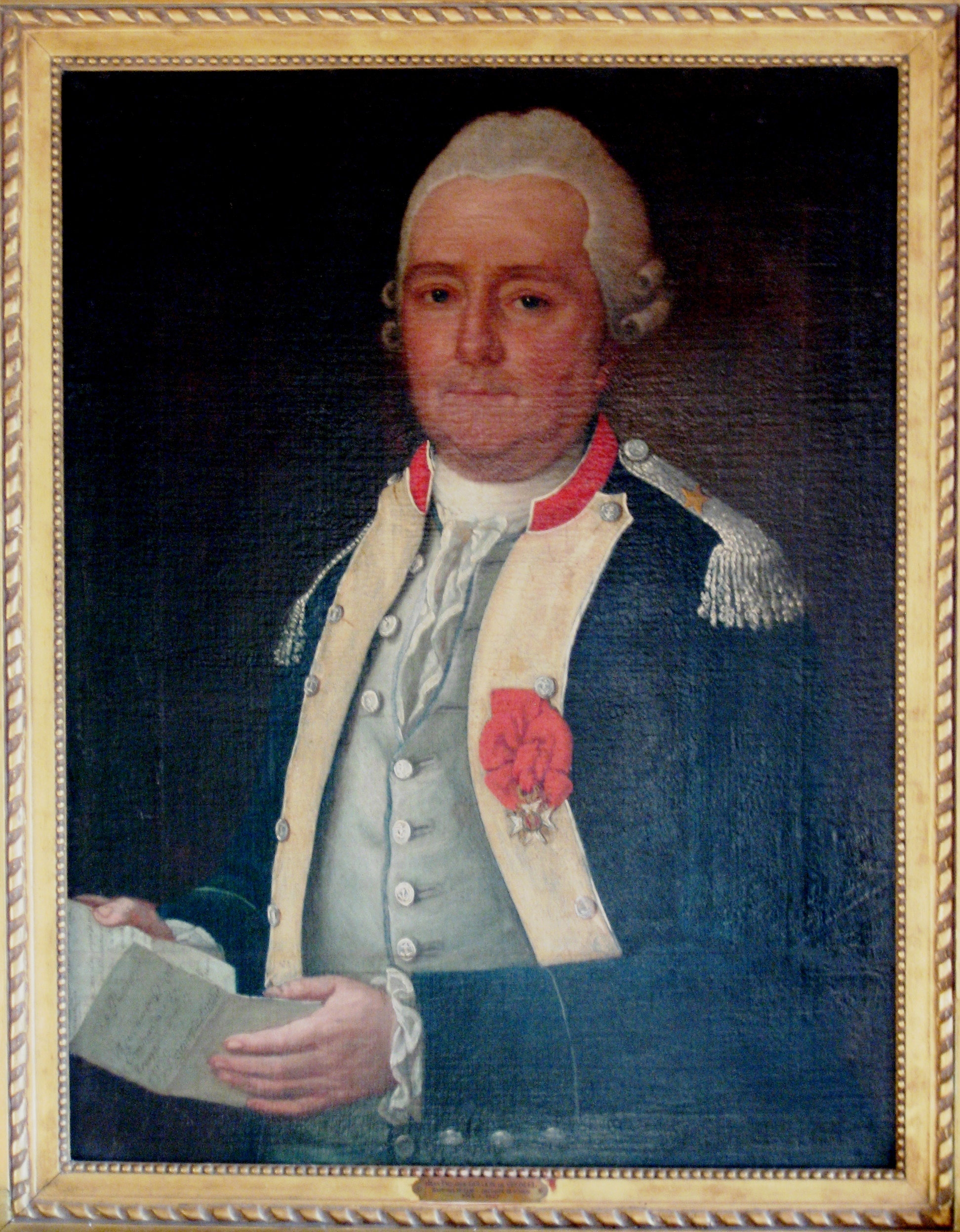 Jean-Philippe Goujon de Grondel, maréchal de camp, knight of the Royal Order of Saint-Louis, holding his letter to Monsieur de Certines, Ministry of the Interior of King Louis XVI of France